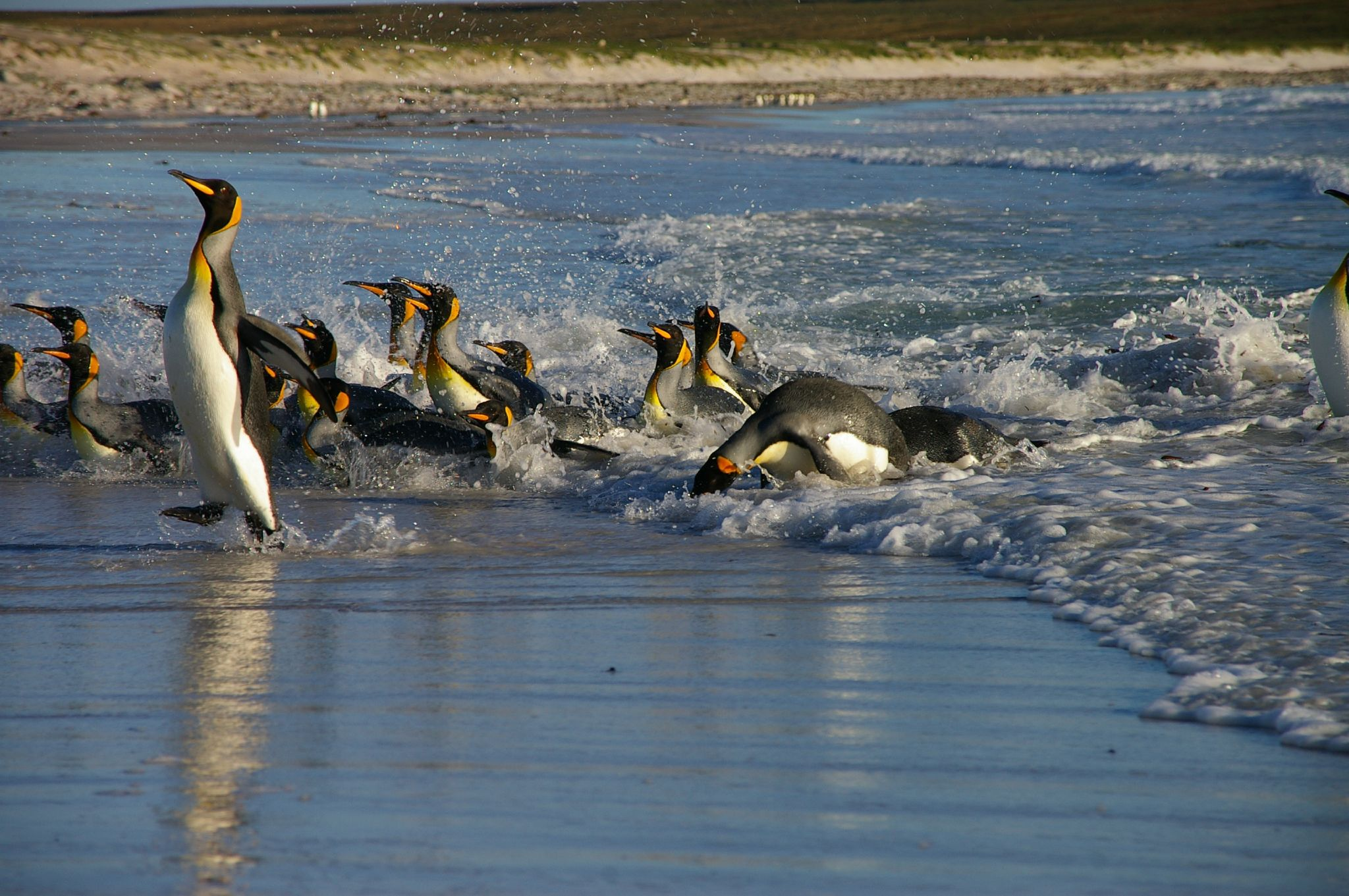 King Penguins (Aptenodytes patagonicus patagonicus), West Falkland